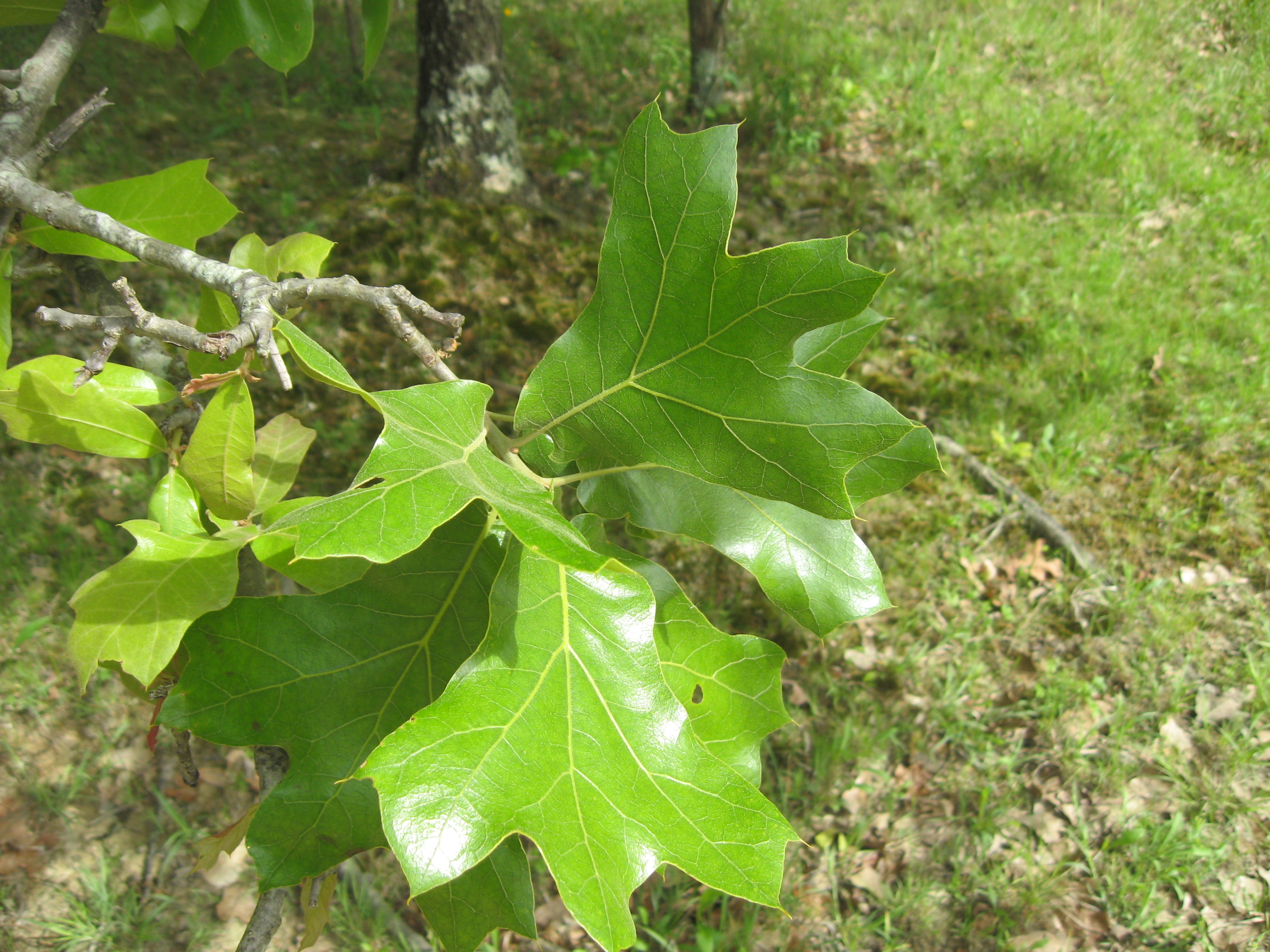 Blackjack Oak leaves. Crooked Creek Barrens State Nature Preserve, Lewis County, Kentucky.